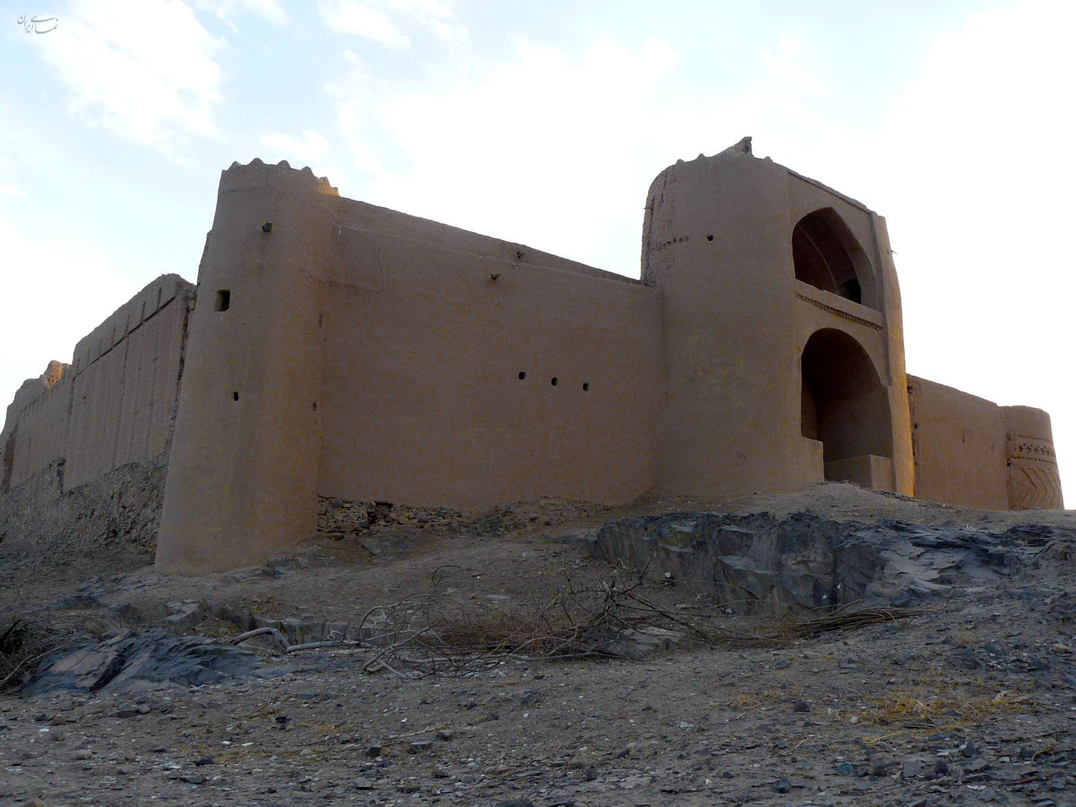 Khur mir castle - birjand